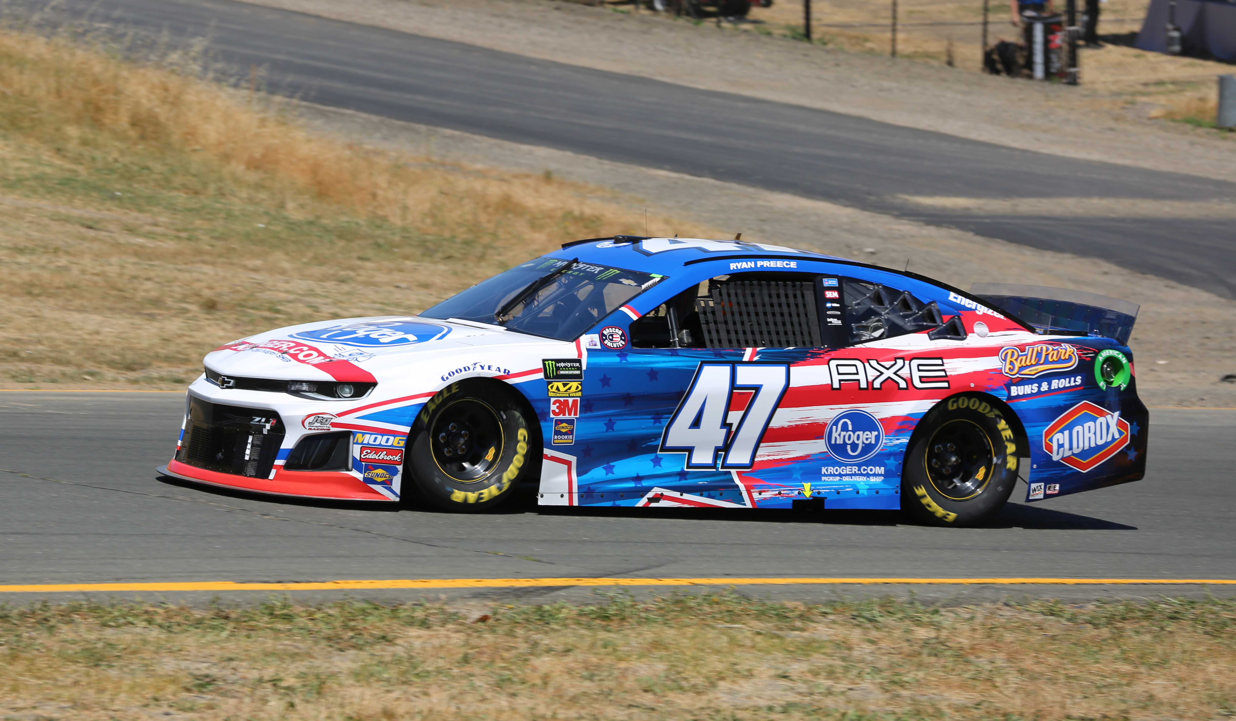 Ryan Preece's No. 47 Kroger Chevrolet at Sonoma Raceway in 2019